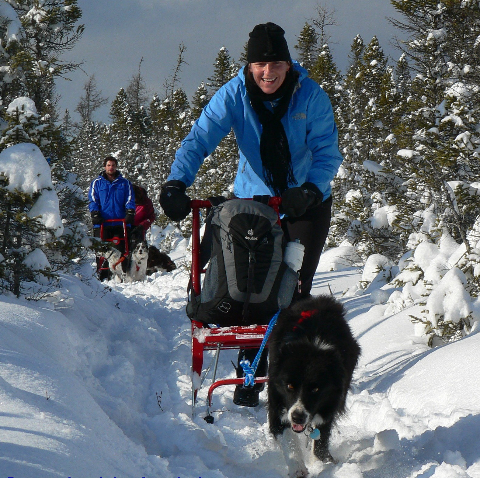 Kicksled and dog